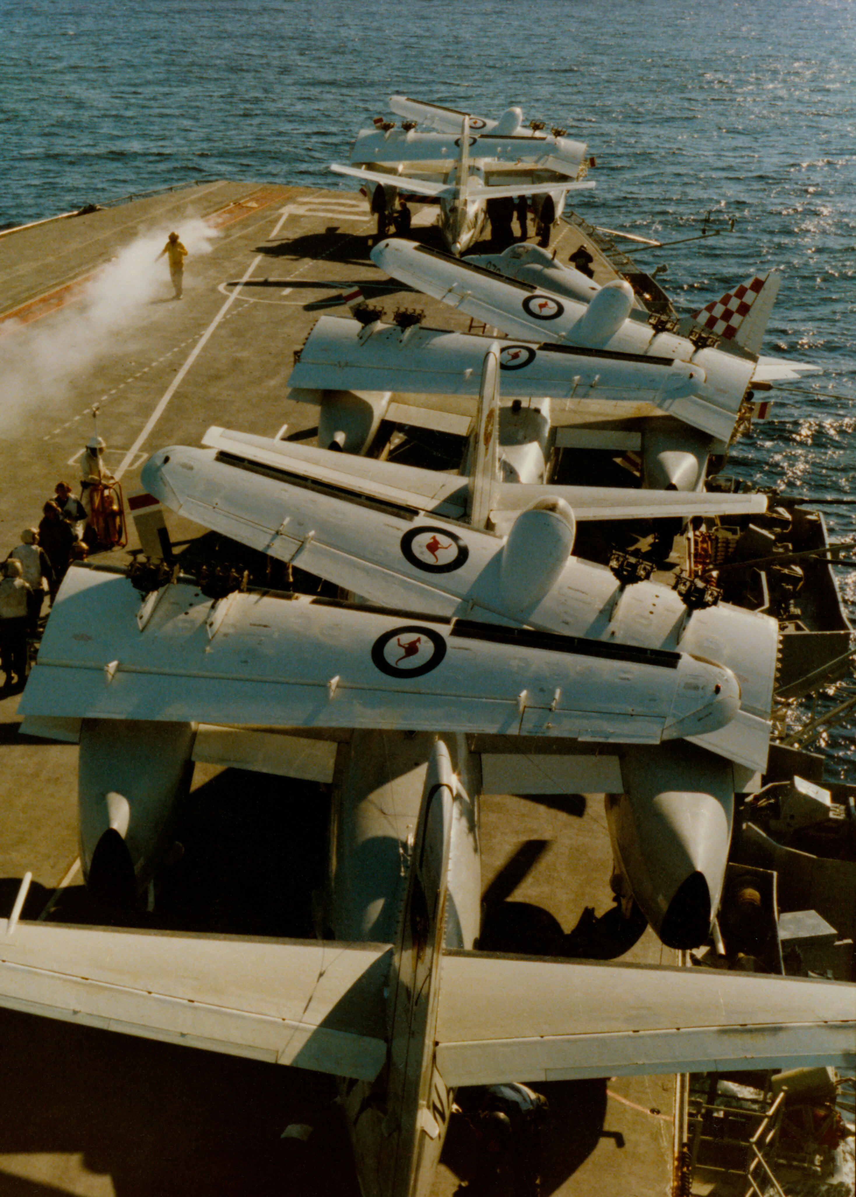 Three Trackers and one Skyhawk parked to starboard, forward of the island aboard HMAS Melbourne